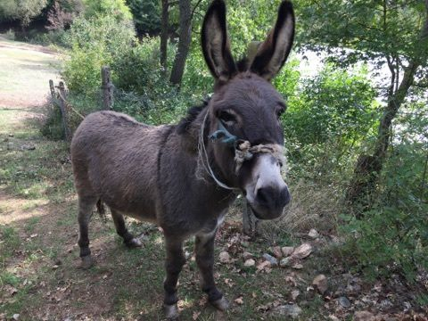 Donkey in village of Rastak in Macedonia